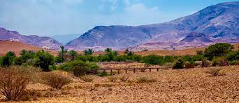 Karin, Bari, Somalia is a western edge of Cal miskaad mountains. The the village is an instrumental for the saperation of Cal madow and Cal miskaad mountain ranges.